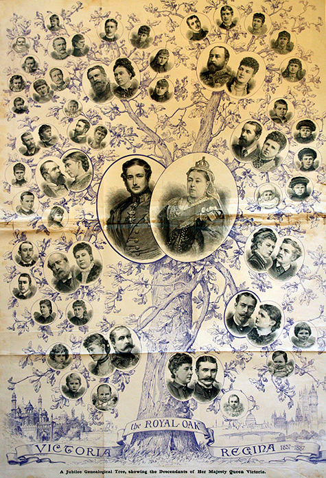 QUEEN VICTORIA and PRINCE ALBERT The Genealogical Tree, in Color